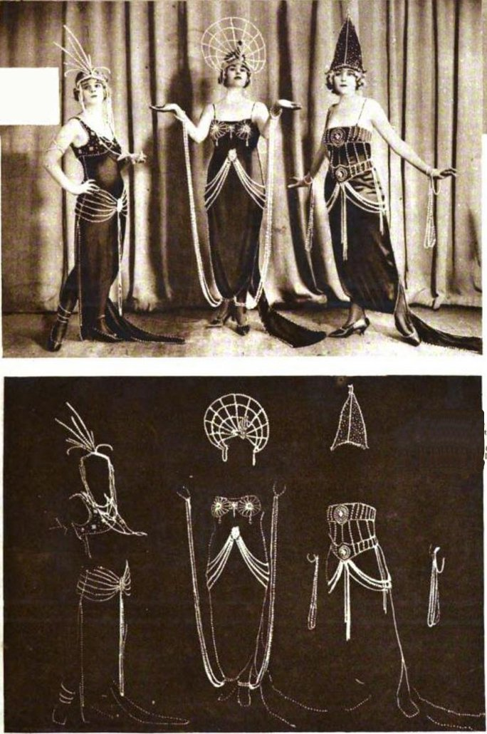 The "pearl scene", a visually spectacular dance number in the Music Box Revue, with music by Irving Berlin, the first production at the new Music Box Theater, New York City, September 1921. In this scene the dance troupe comes out in costumes covered with pearls. Then the lights in the theater are suddenly turned off, and the pearls themselves glow with an eerie light, outlining the dancers. The pearls are covered with phosphorescent paint, and before coming onstage the dancers have stood under arc lights so the pearls absorb the light and glow with phosphorescence. The image shows a closeup of 3 of the dancers, in light and in darkness. The pearls for this single 5 minute number cost $25,000.